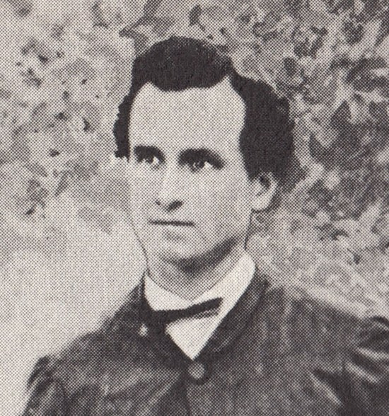 Stephanus Jacobus du Toit as a student at the Stellenbosch seminary, taken in about 1870